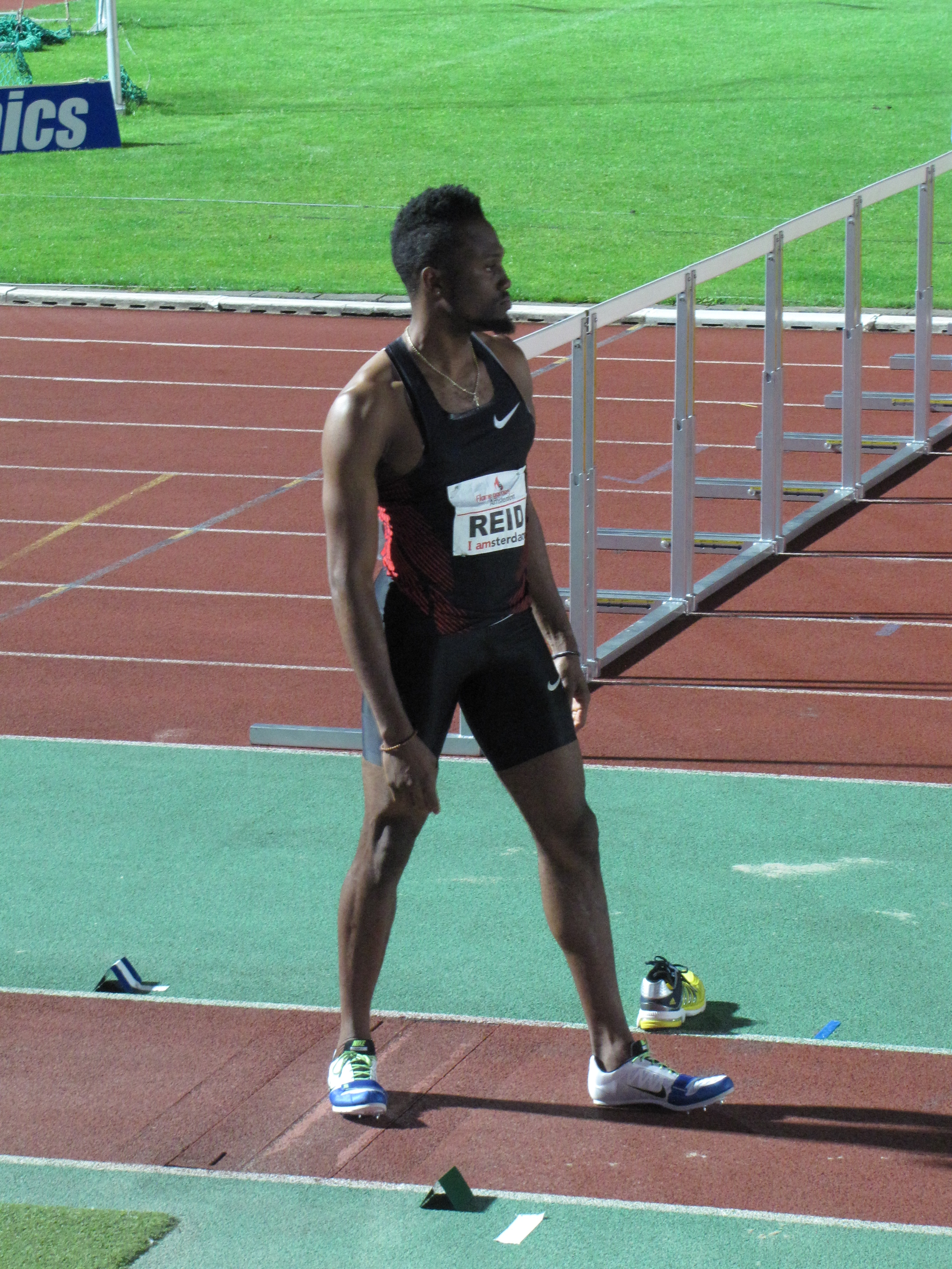 Julian Reid at the 2013 Flame Games in the Amsterdam Olympic Stadium, The Netherlands.